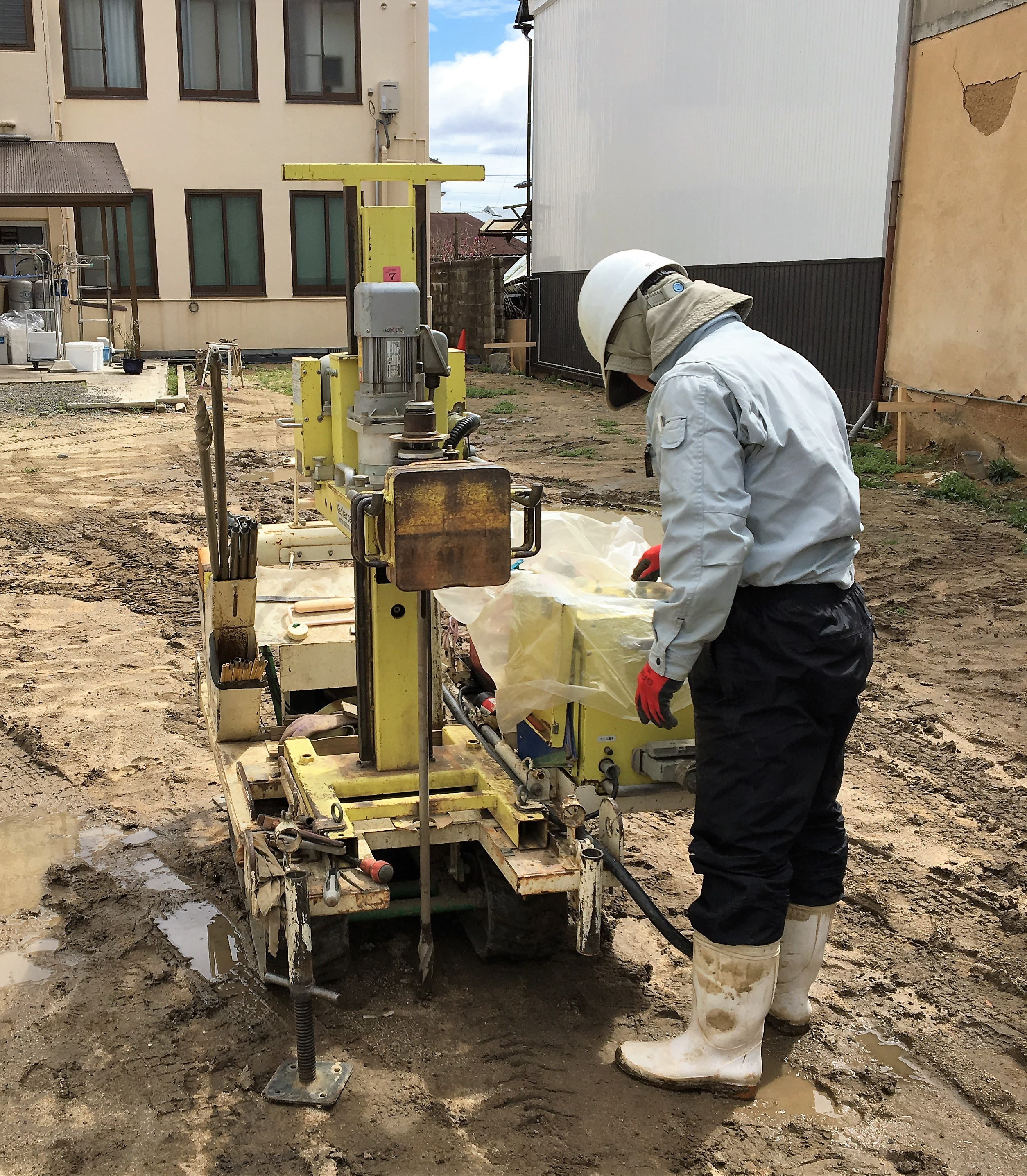 Method for Swedish weight sounding test (Geotechnical investigation) JAPAN